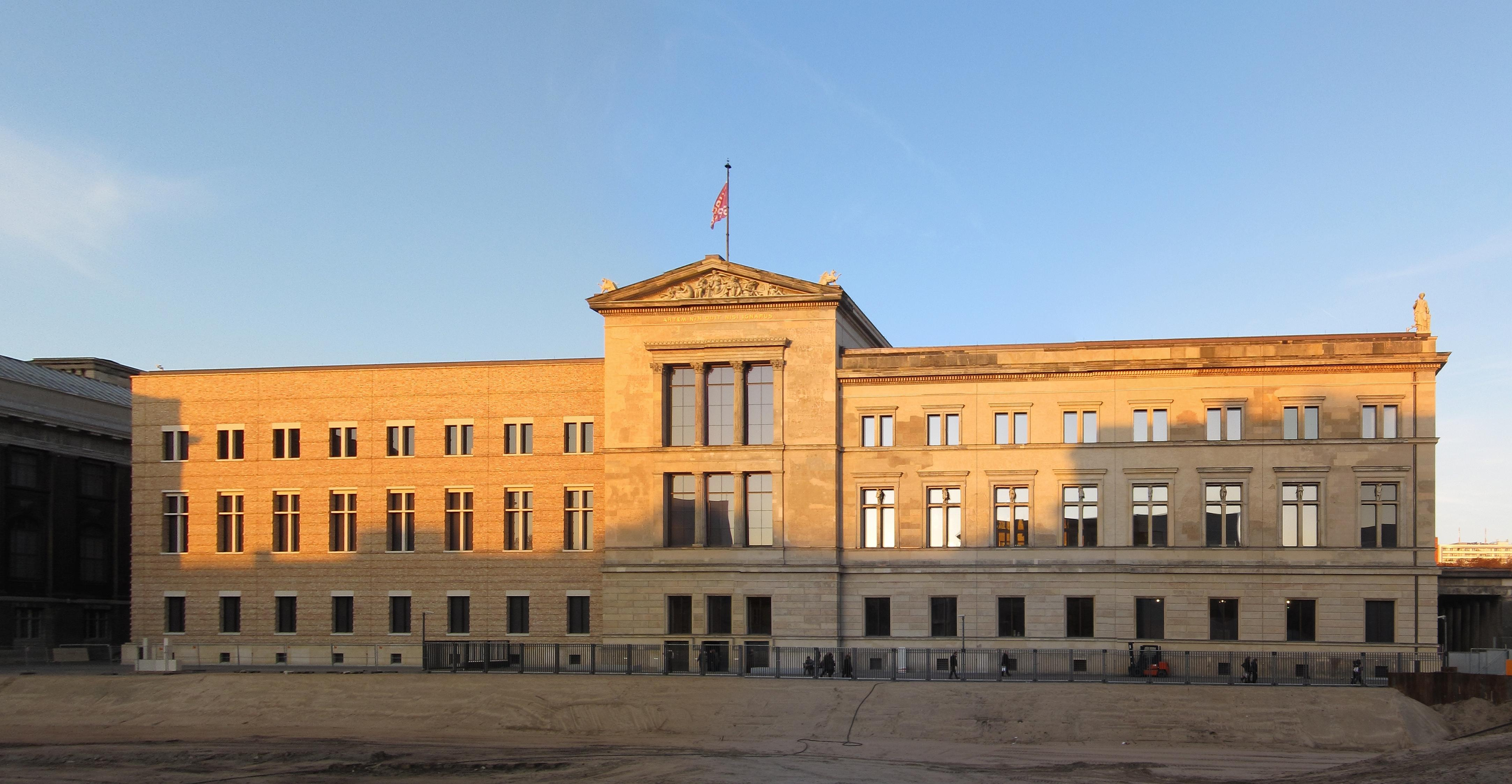 Exterior of the Neues Museum in Berlin. This image was created with Hugin.